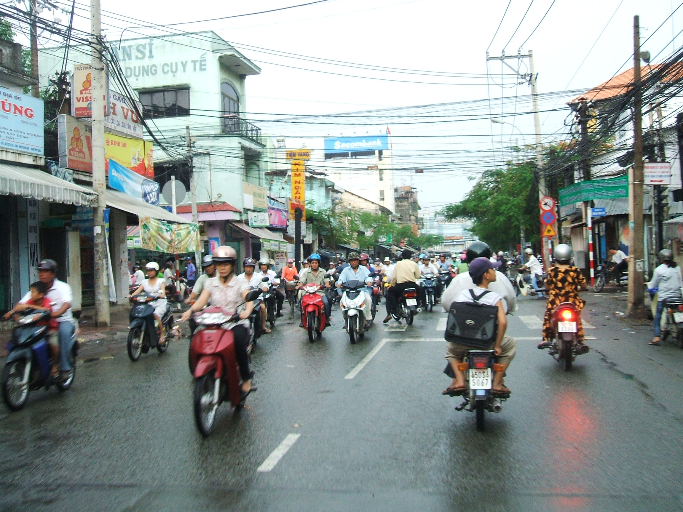 Taken from the back of a motorcycle, this illustrates how popular the motorcycle is as a form of transportation in Vietnam.